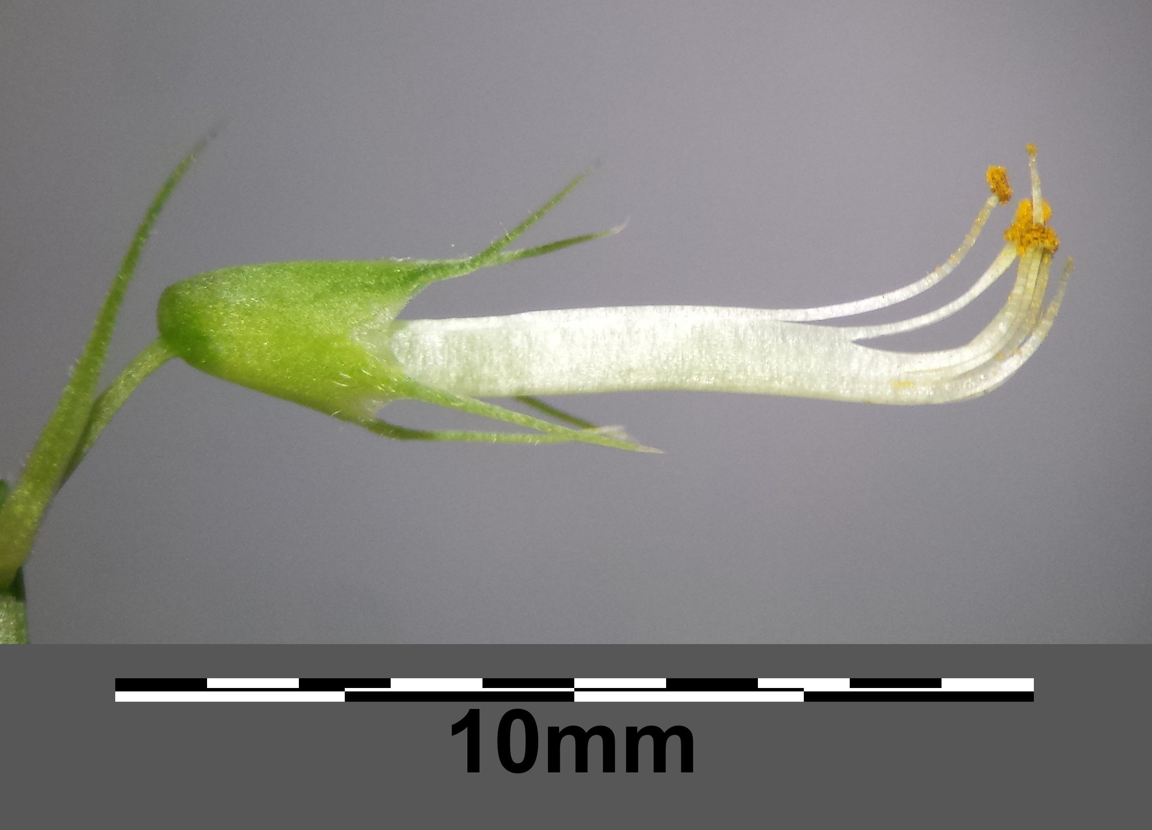 Monadelphous stamens Taxonym: Galega officinalis ss Fischer et al. EfÖLS 2008 ISBN 978-3-85474-187-9 Location: Senningbach next to Hatzenbach, district Korneuburg, Lower Austria - 190 m a.s.l. Habitat: slope of a stream